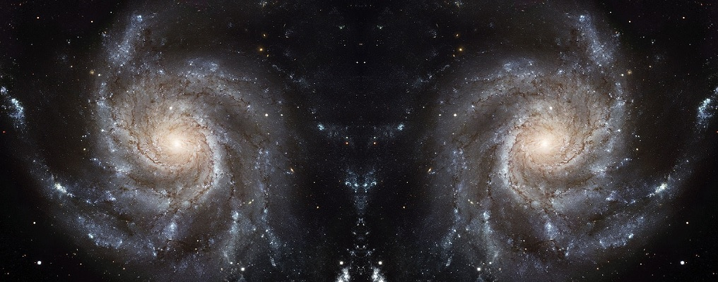 This is an image demonstrating the same galaxy (Messier 101) in its normal position and then horizontally flipped. This is to illustrate a section in the article Galaxy Zoo. The picture was downloaded from Wikipedia, edited by myself and then uploaded.